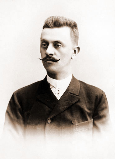 Depicted person: Vilmos Pecz